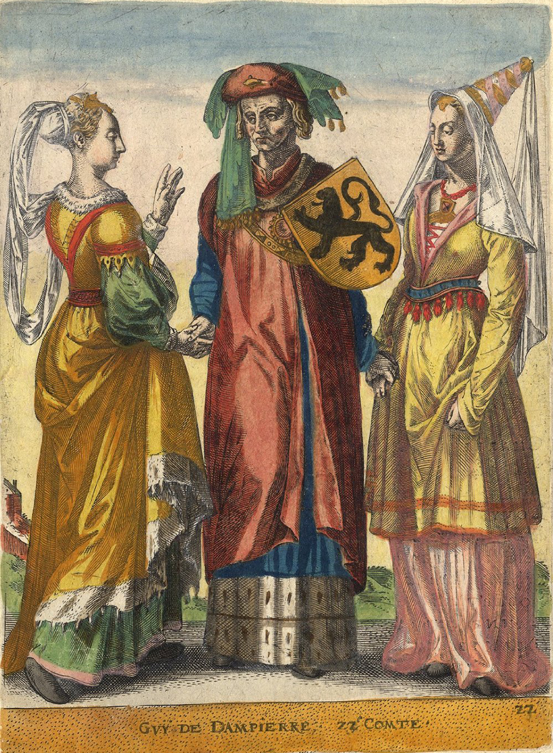 Guy of Dampierre and his wives